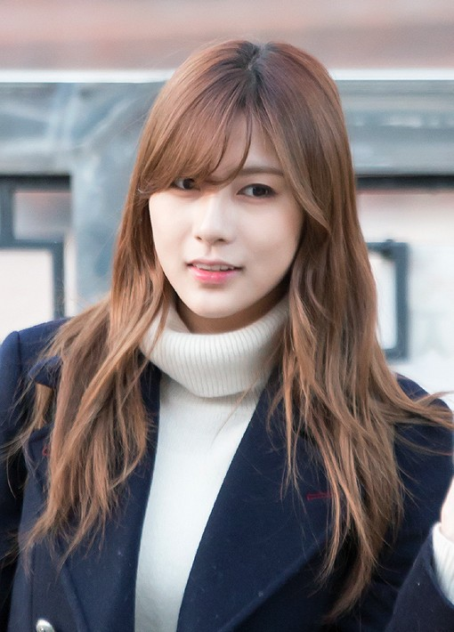 Oh Hayoung on November 13, 2014